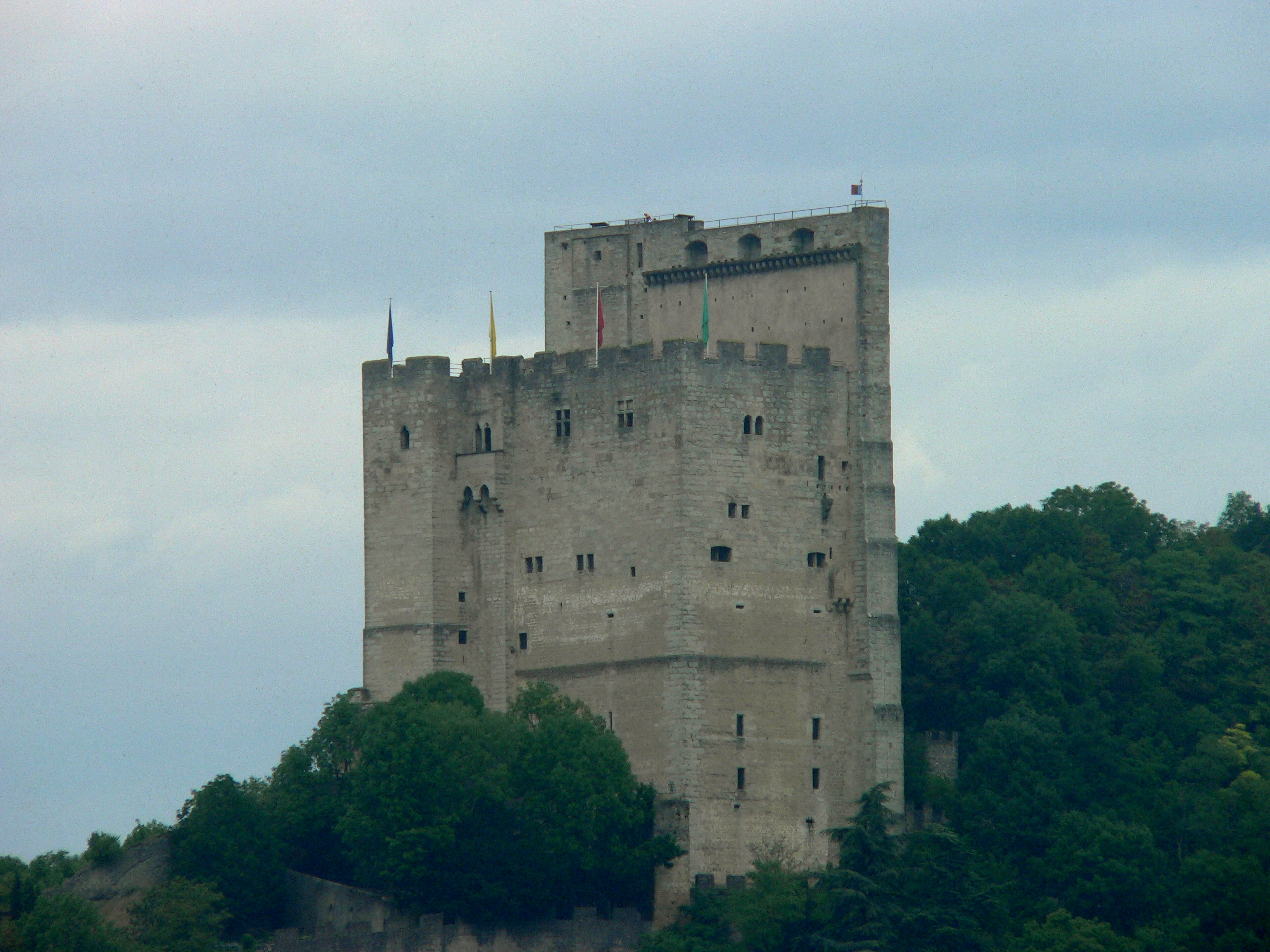 Castle of Crest, Diois, french Alpes